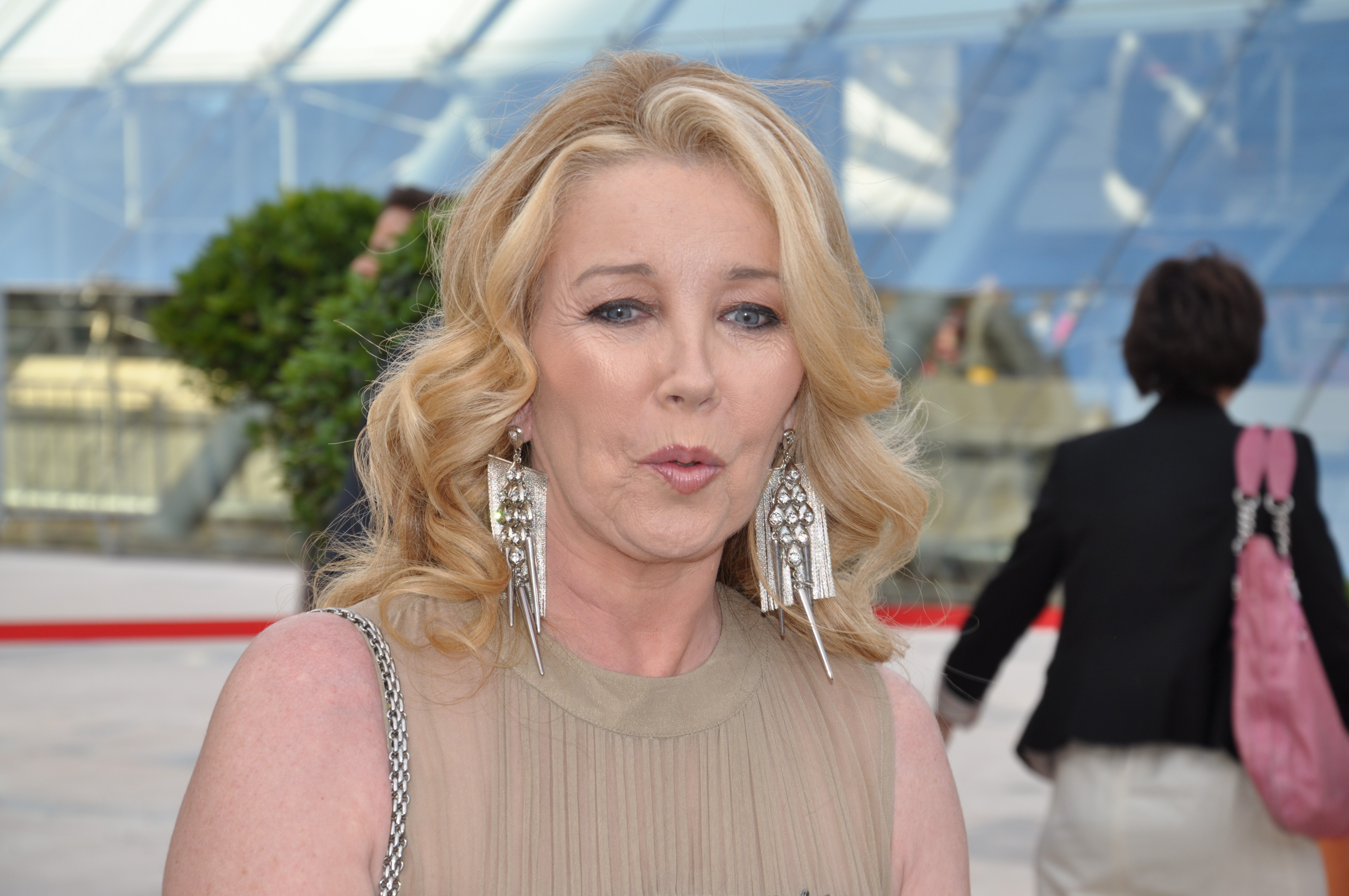 Melody Thomas Scott at the 2013 Monte-Carlo Television Festival.